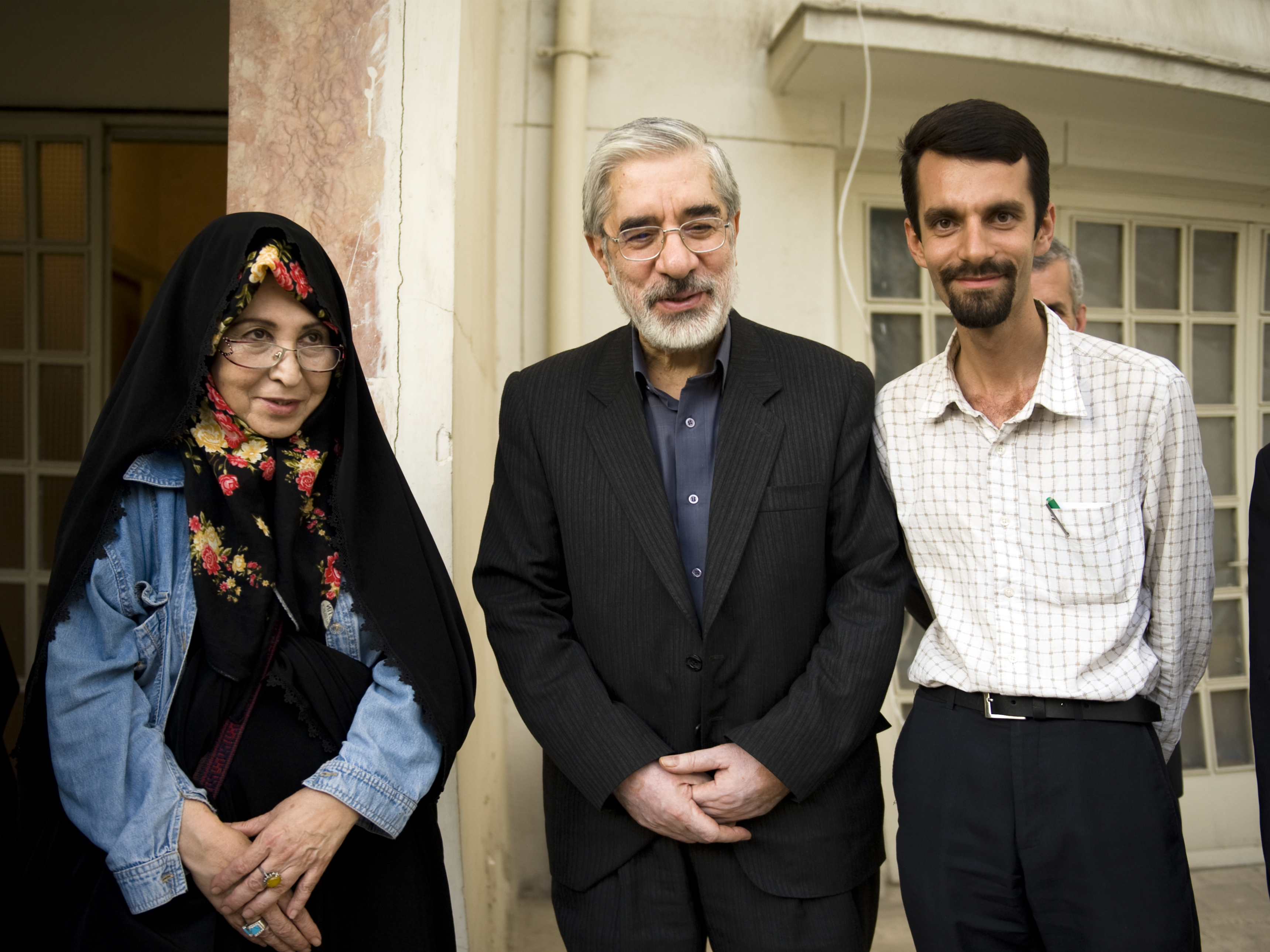 Zahra Rahnavard, Mir Hossein Mousavi and Hamed Saber